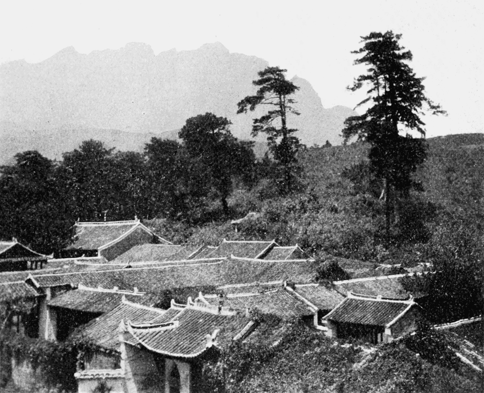 A view of the college halls